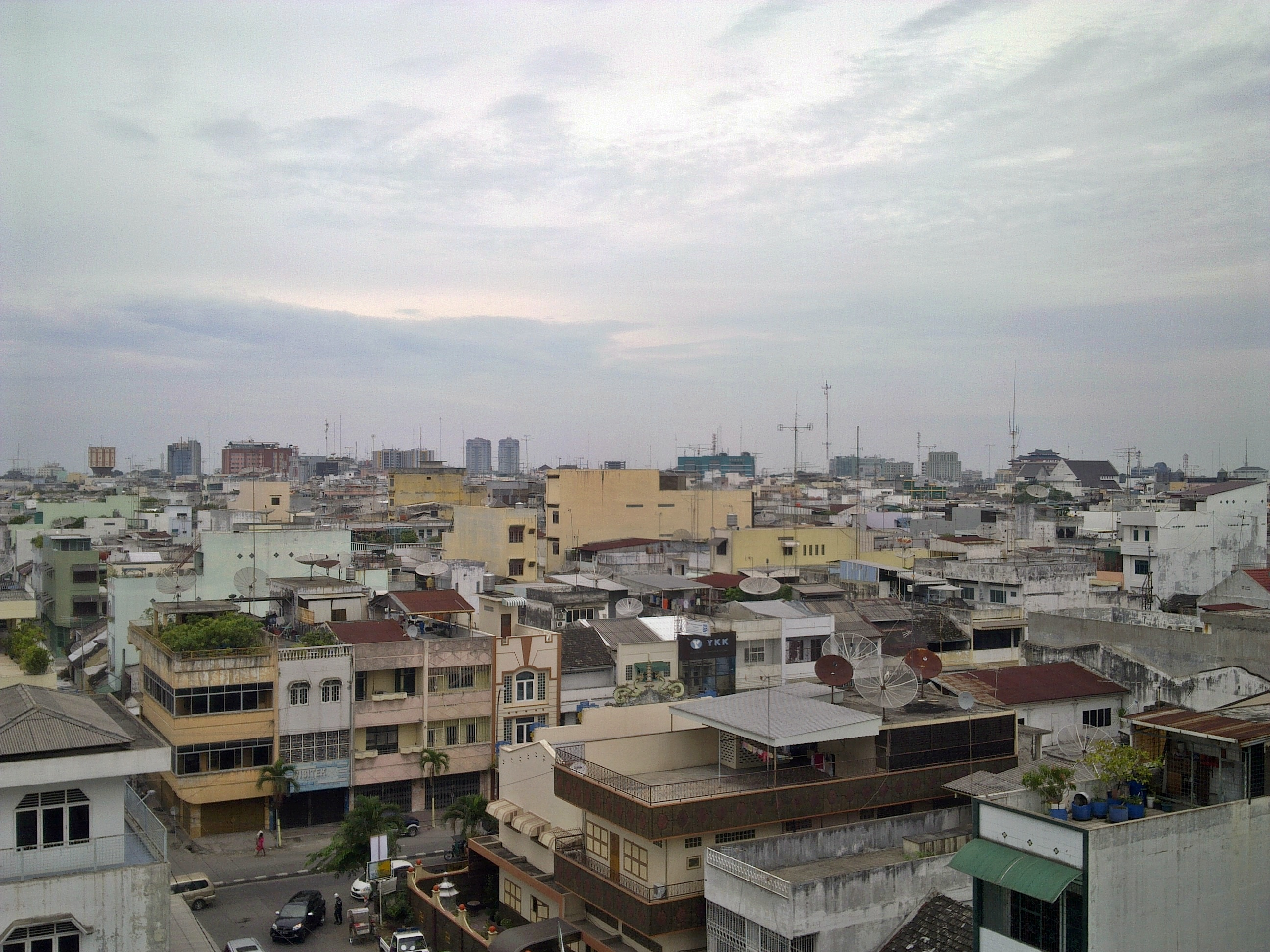 Skyline of Medan, Indonesia. Shot from Vihara Maitri at the fourth floor. Editted with Photoscape.